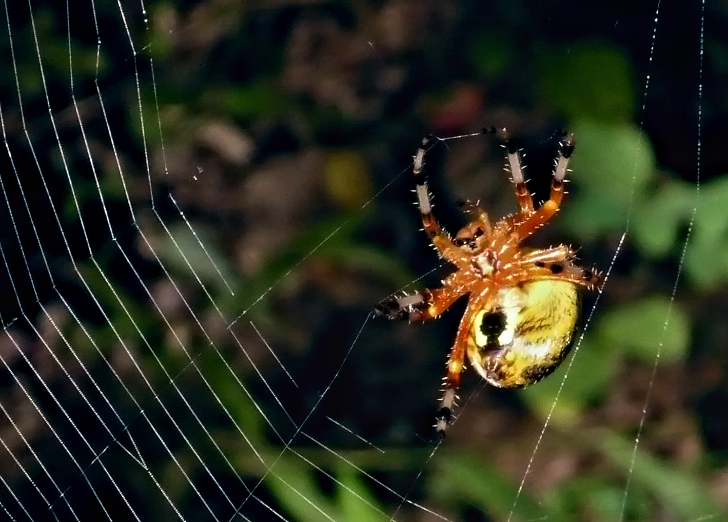 Marbled Orb Weaver spider (Araneus marmoreus), Ouachita Mountains, Arkansas